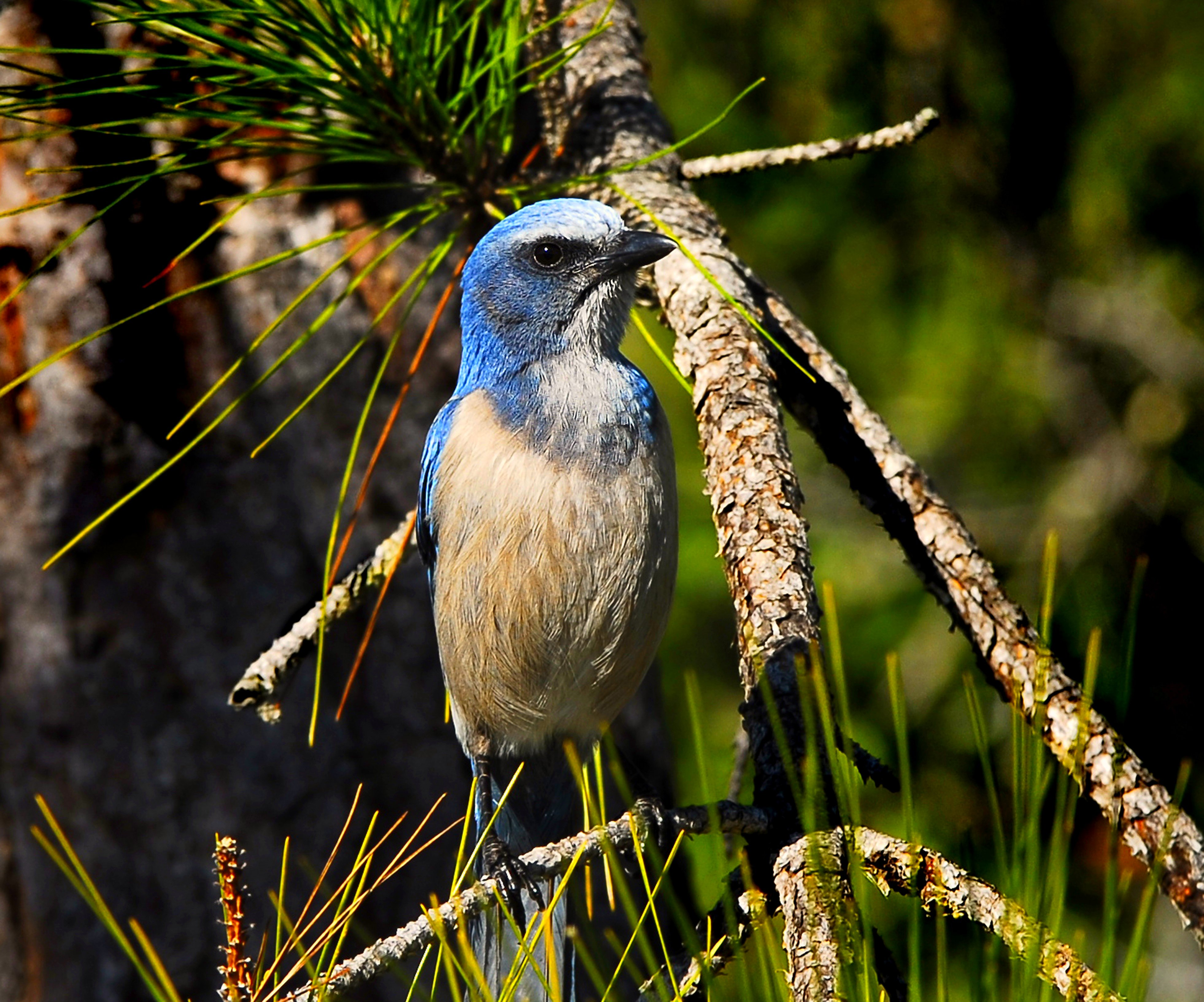 Florida Scrub-Jay (Aphelocoma coerulescens). On the threatened species list in Florida sadly. This shot taken in Port St. John, Florida.